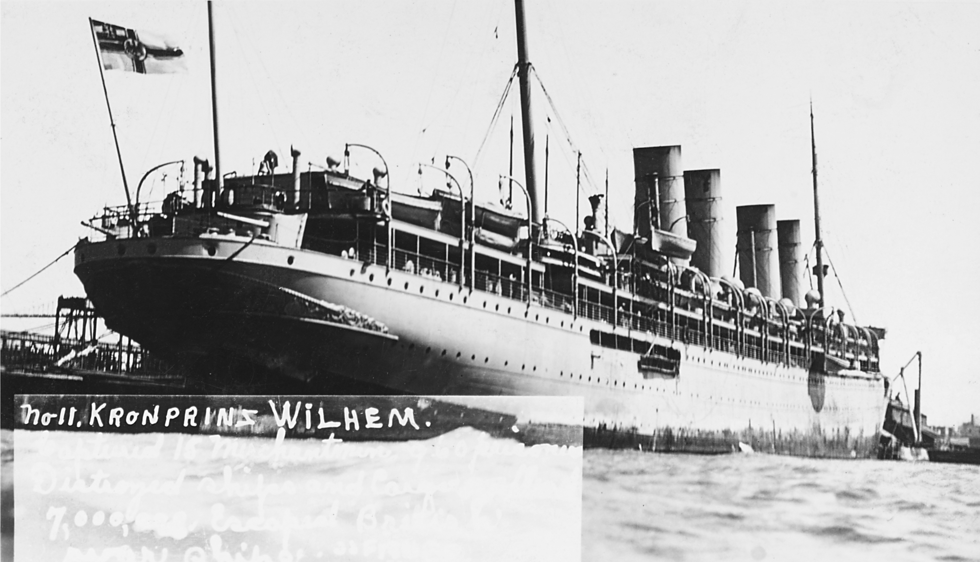 SMS Kronprinz Wilhelm (German Auxiliary Cruiser, formerly Passenger Liner, 1901) Interned at Norfolk, Virginia, circa April 1915. She still flies the German naval ensign and carries her guns. This ship served in 1917-1919 as USS Von Steuben (ID # 3017). The original photograph is printed on post card ("AZO") stock, and was mailed from USS Wyoming (Battleship # 32) on 30 May (1915 ?). See Photo # NH 105901-A-KN for a view of the card's reverse side. Donation of Charles R. Haberlein Jr., 2008.